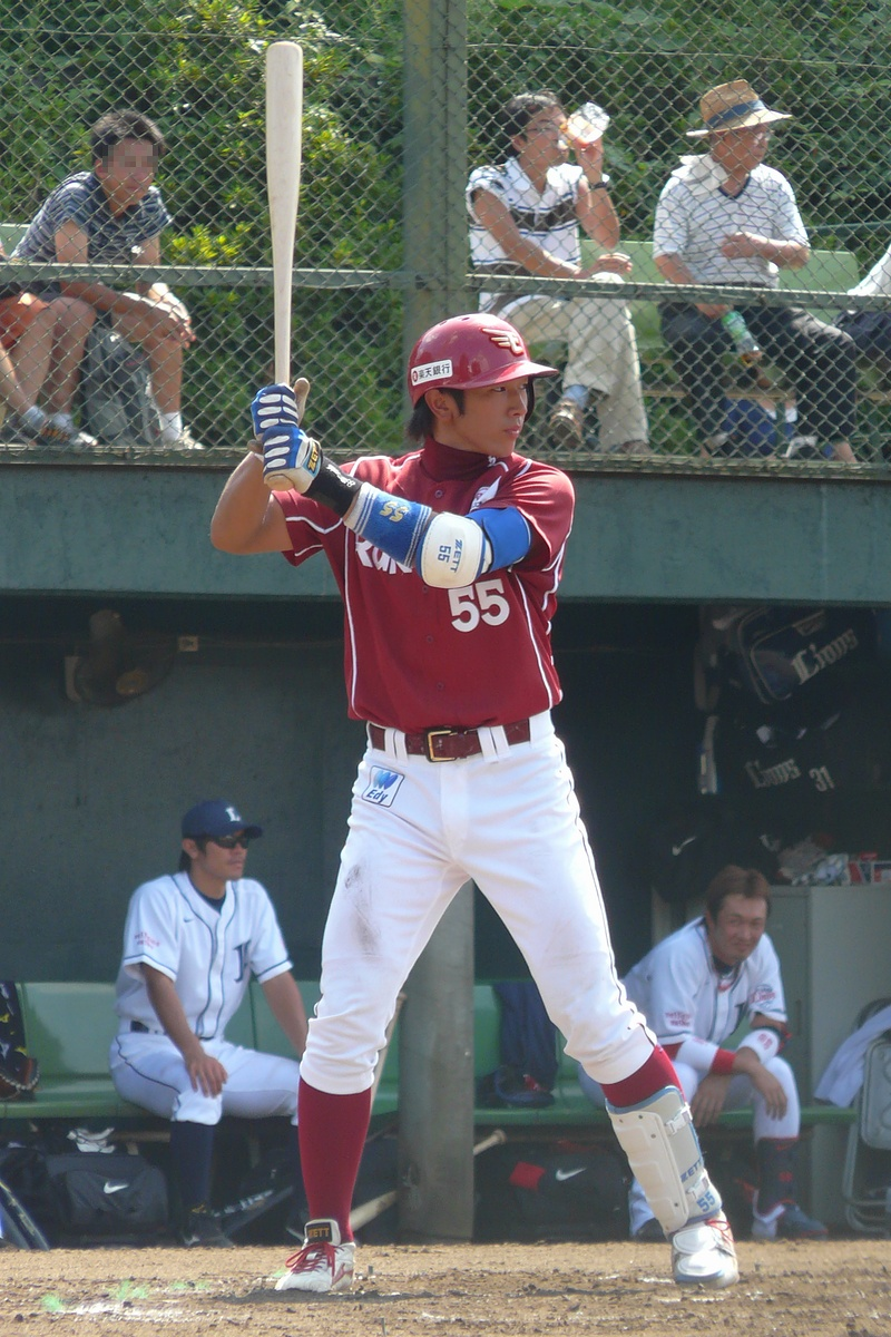 Tetsuro Nishida, infielder of the Tohoku Rakuten Golden Eagles, at Seibu Baseball Ground II.